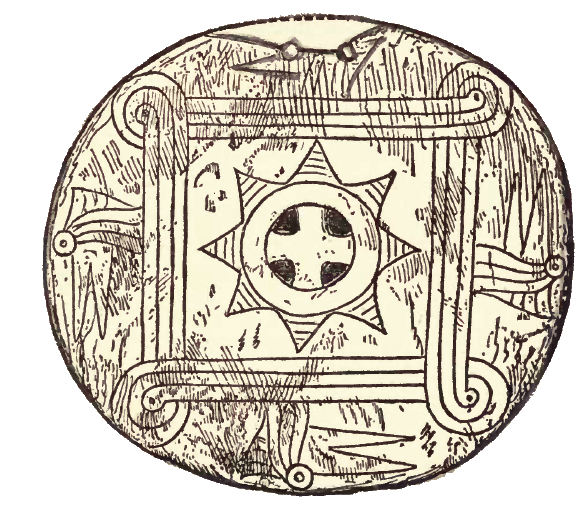 Image of a Cox Mound style gorget, a shell gorget with four crested birds, most likely woodpeckers. Over 30 gorgets of this design have been found in Tennessee, and they could possibly be made by ancestral Cherokee, Muscogee, or Yuchi people.[1]